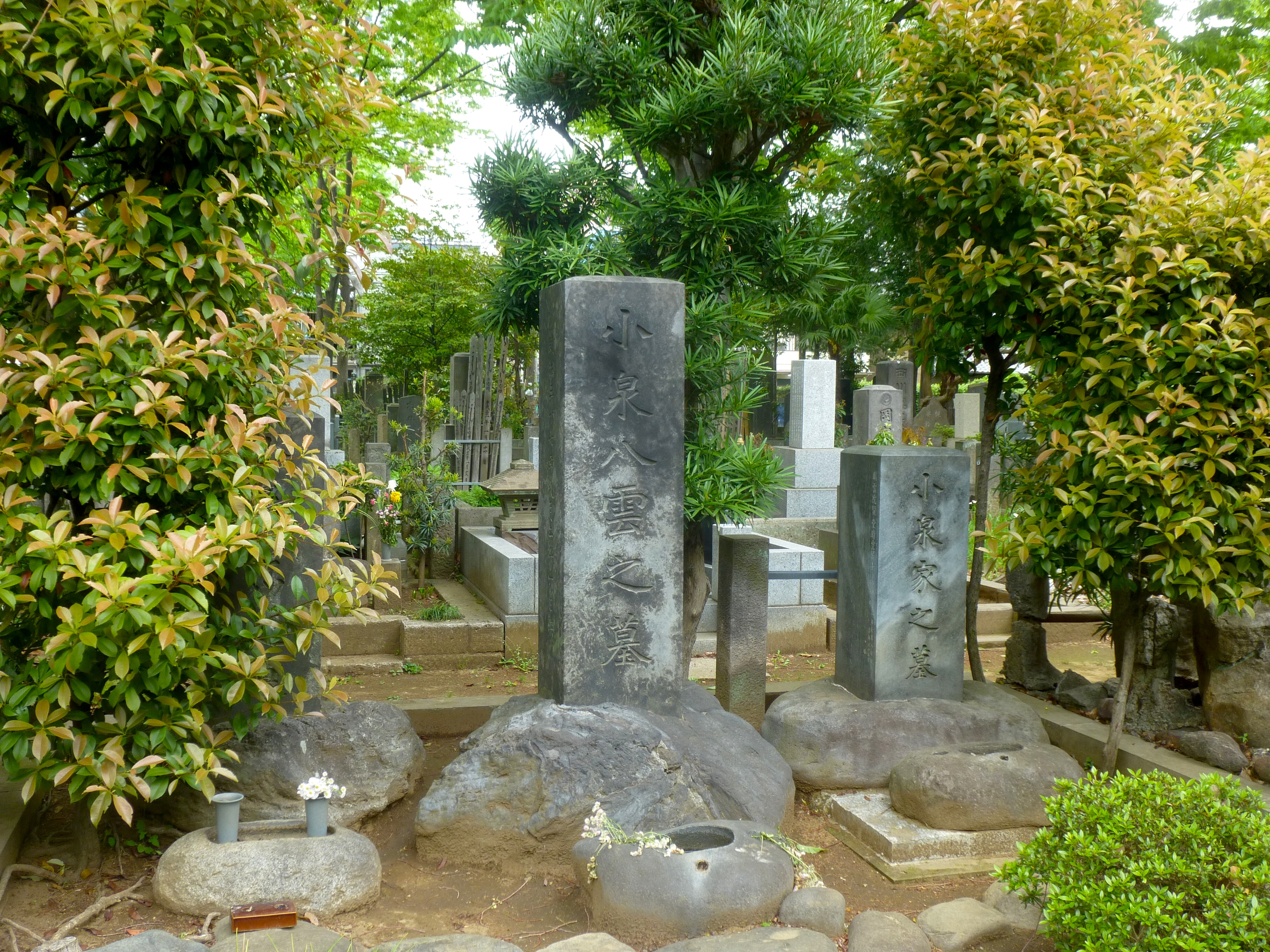 Patrick Lafcadio Hearn's grave in Zoshigaya cemetery (27 June 1850 – 26 September 1904, also known by the Japanese name Koizumi Yakumo)